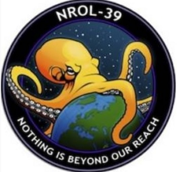 Official patch for NROL-39, a 2013 US government satellite launch